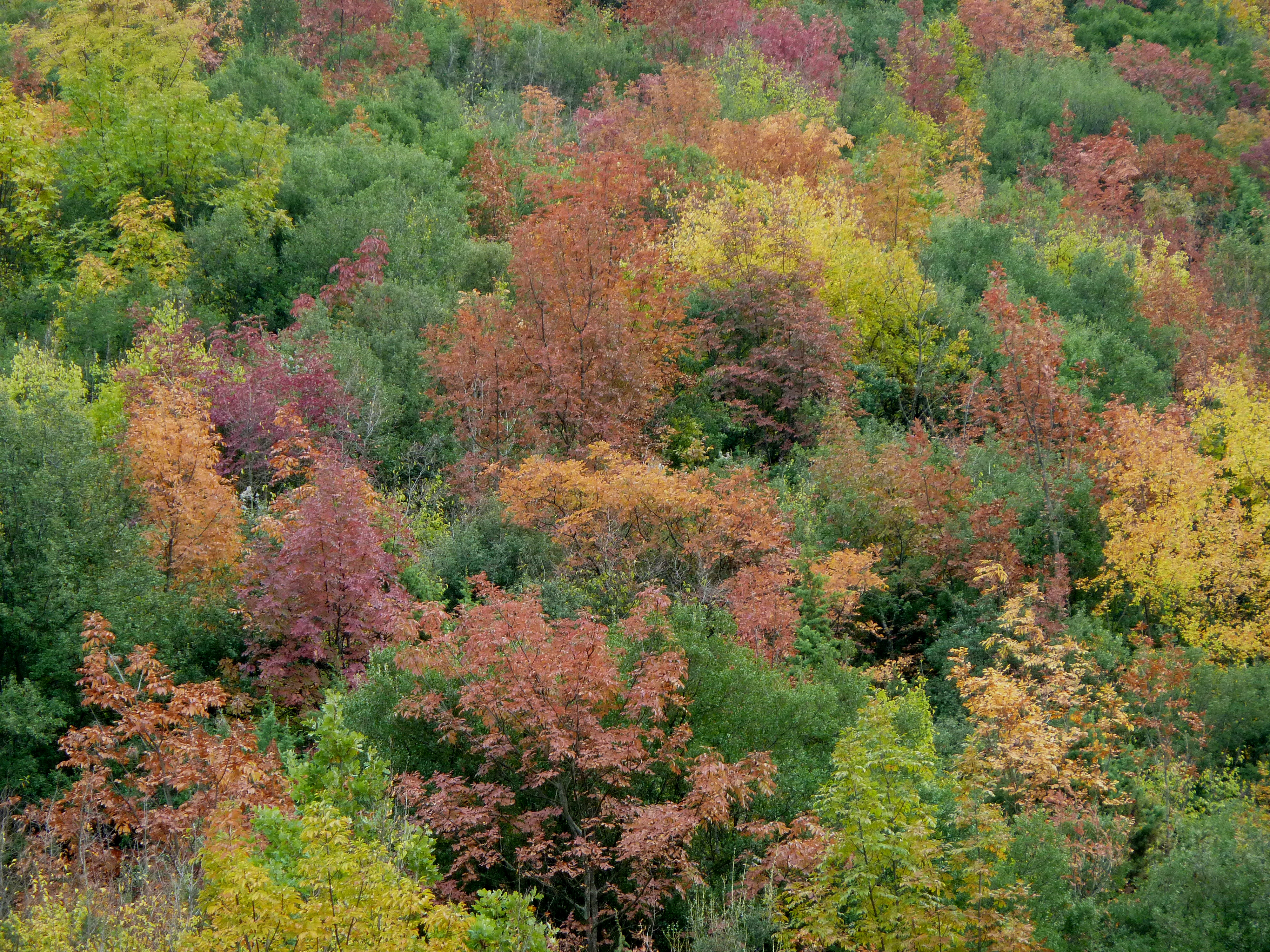 This is a photography of Natura 2000 protected area with ID GR1140004